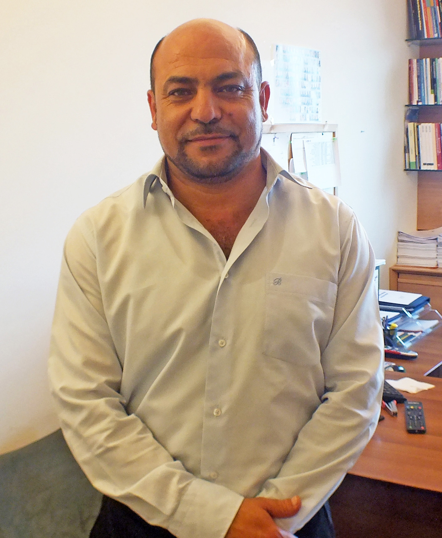 Mas'oud Ghnaim MK.